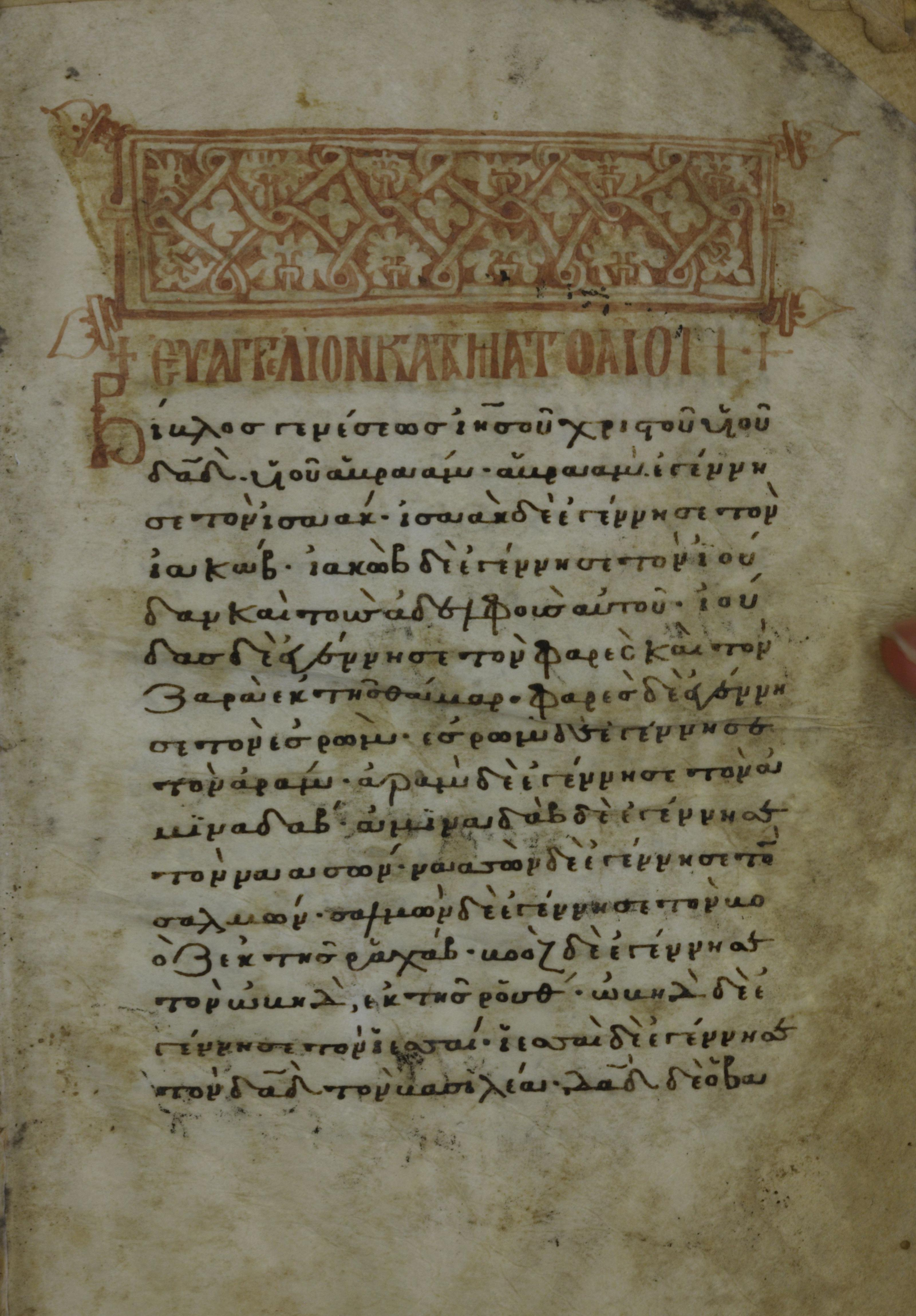 the first page of the Gospel of Matthew; decorated head-piece